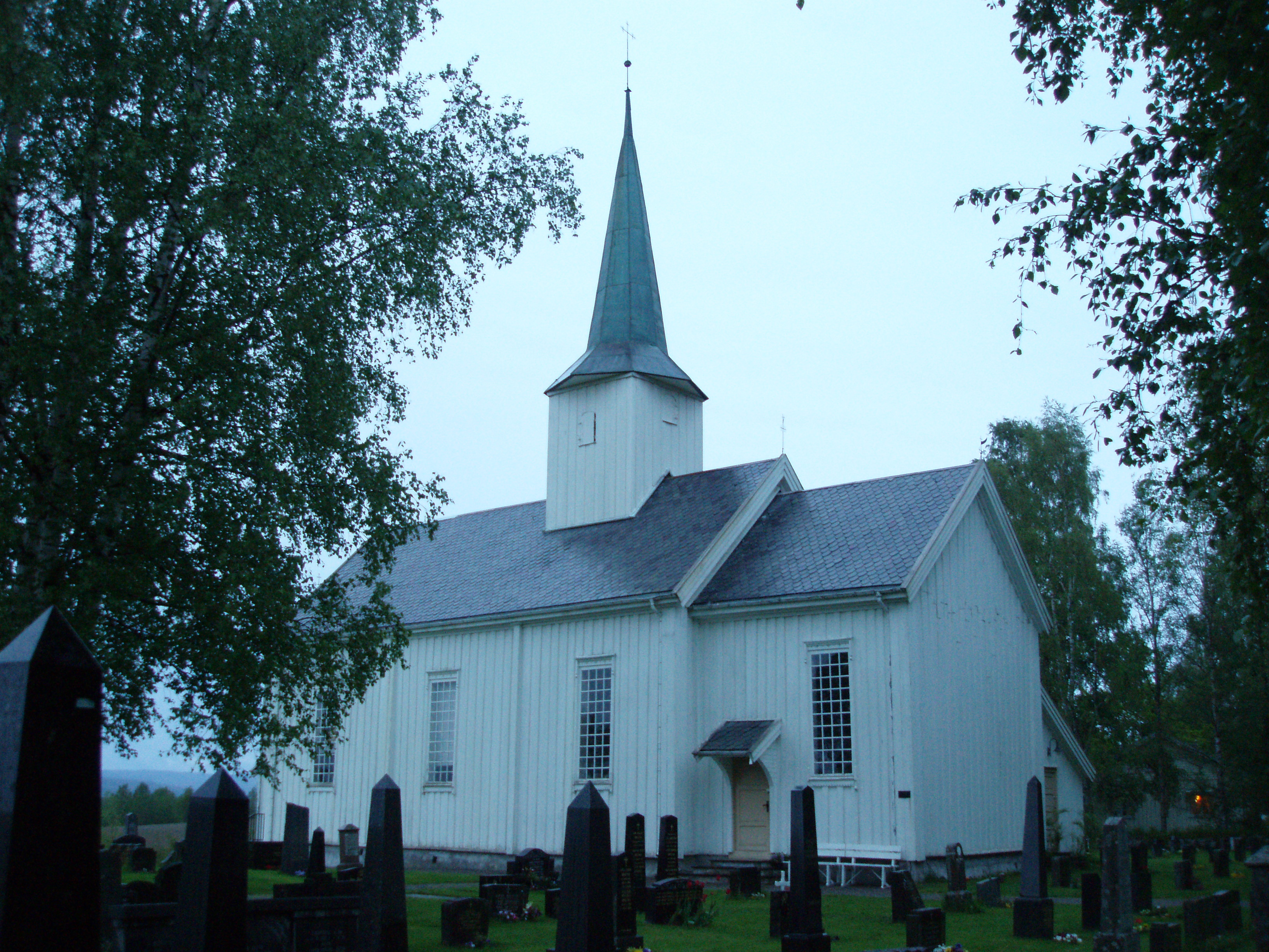 Holter church in Nannestad municipality in Akershus county in Norway.